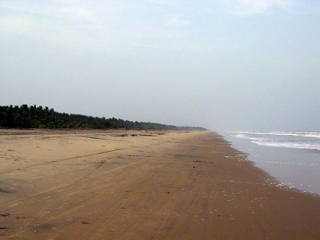 Antarvedi Beach view, Antarvedi, Sakhinetipalli Taluk, East Godavari, Andhra Pradesh